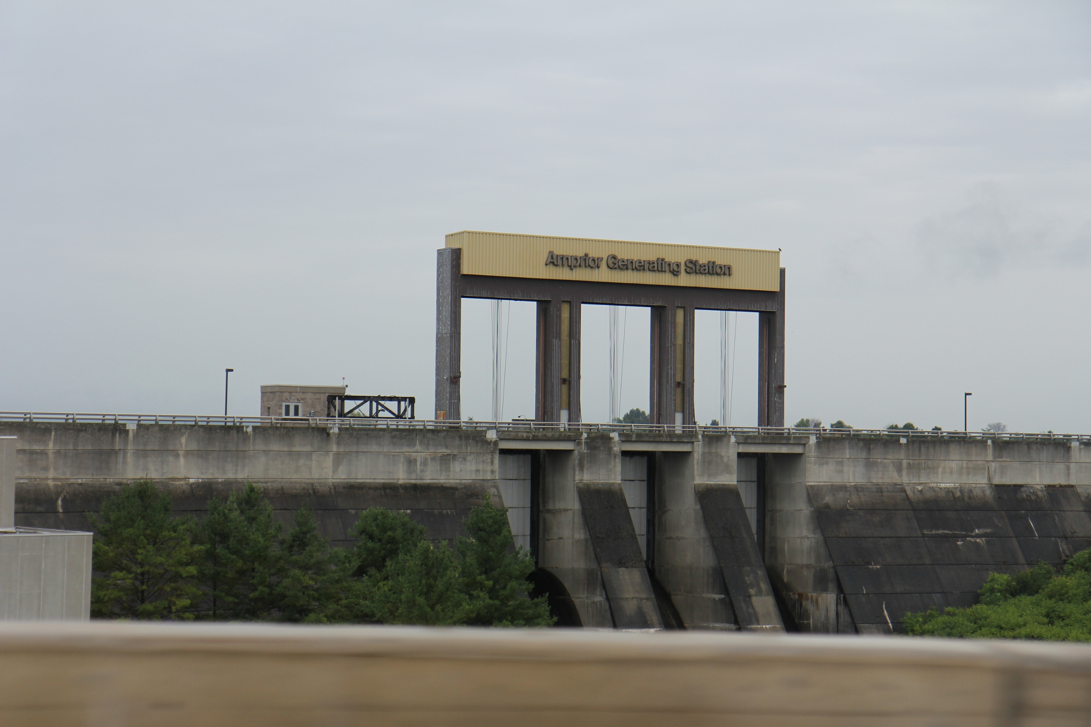 The Arnprior Generating Station from Ontario 17 on a rainy day.